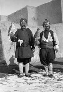 Karapapak falconers in Naghadeh (Sulduz), Iran